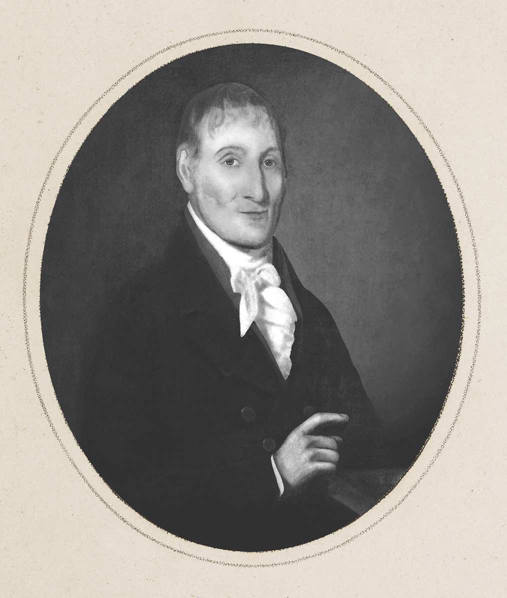 Scottish botanist of the eighteenth and nineteenth century, contemporary of Sir Wm. Hooker and Sir Jas. E. Smith